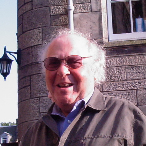 Marshall David Sahlins, Scotland, University of St Andrews, June 2003